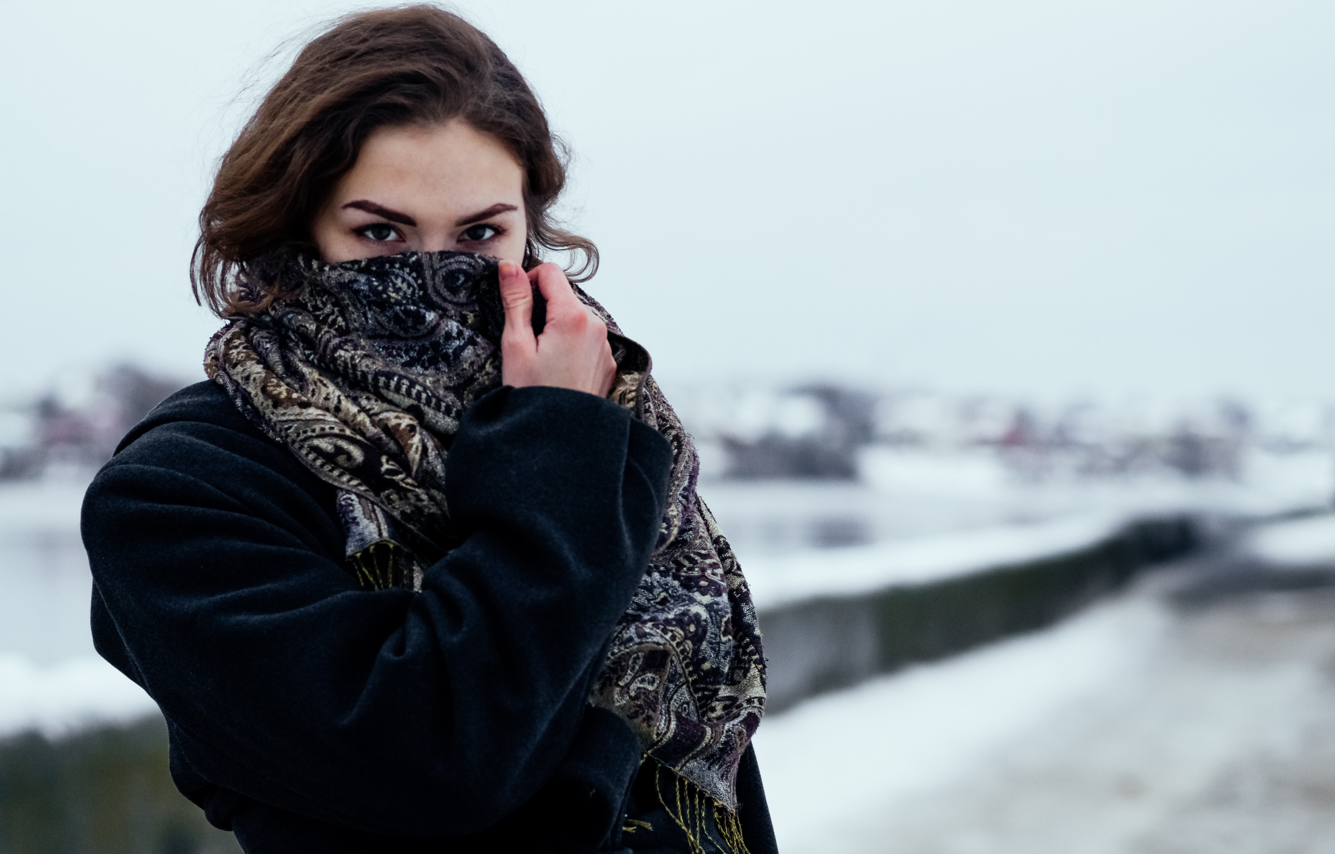 Eye contact encouraged or tolerated by only leaving the eyes visible and rendering the person possibly unrecognizable? This is the question. In this case, it is certainly encouraged as this image is one of many with the model freely and as person recognizably posing. But it is also tolerated, as it is the only image that is released under a wikipedia compatible license.